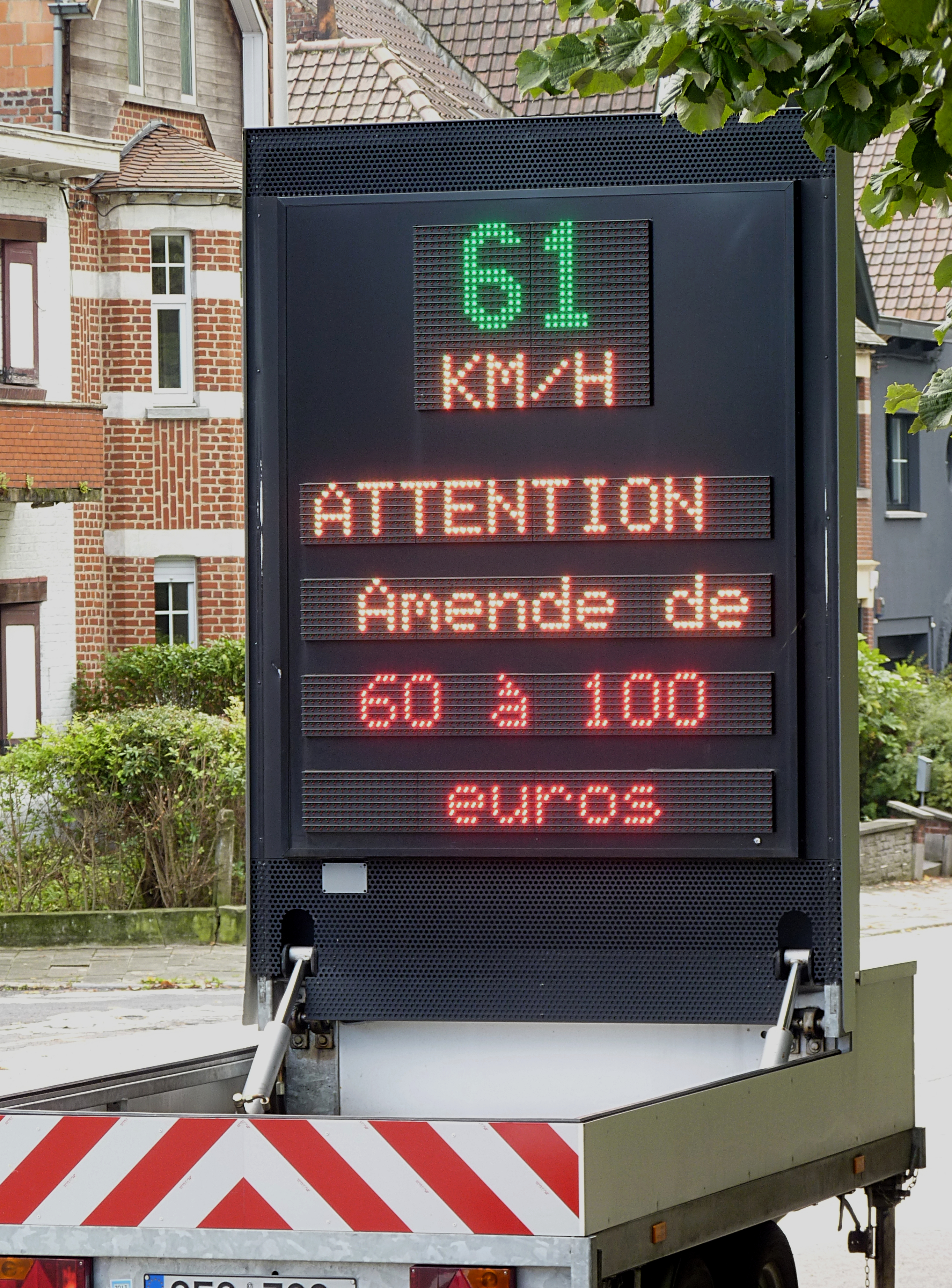 Preventive radar on a trailer, picture taken in Belgium.